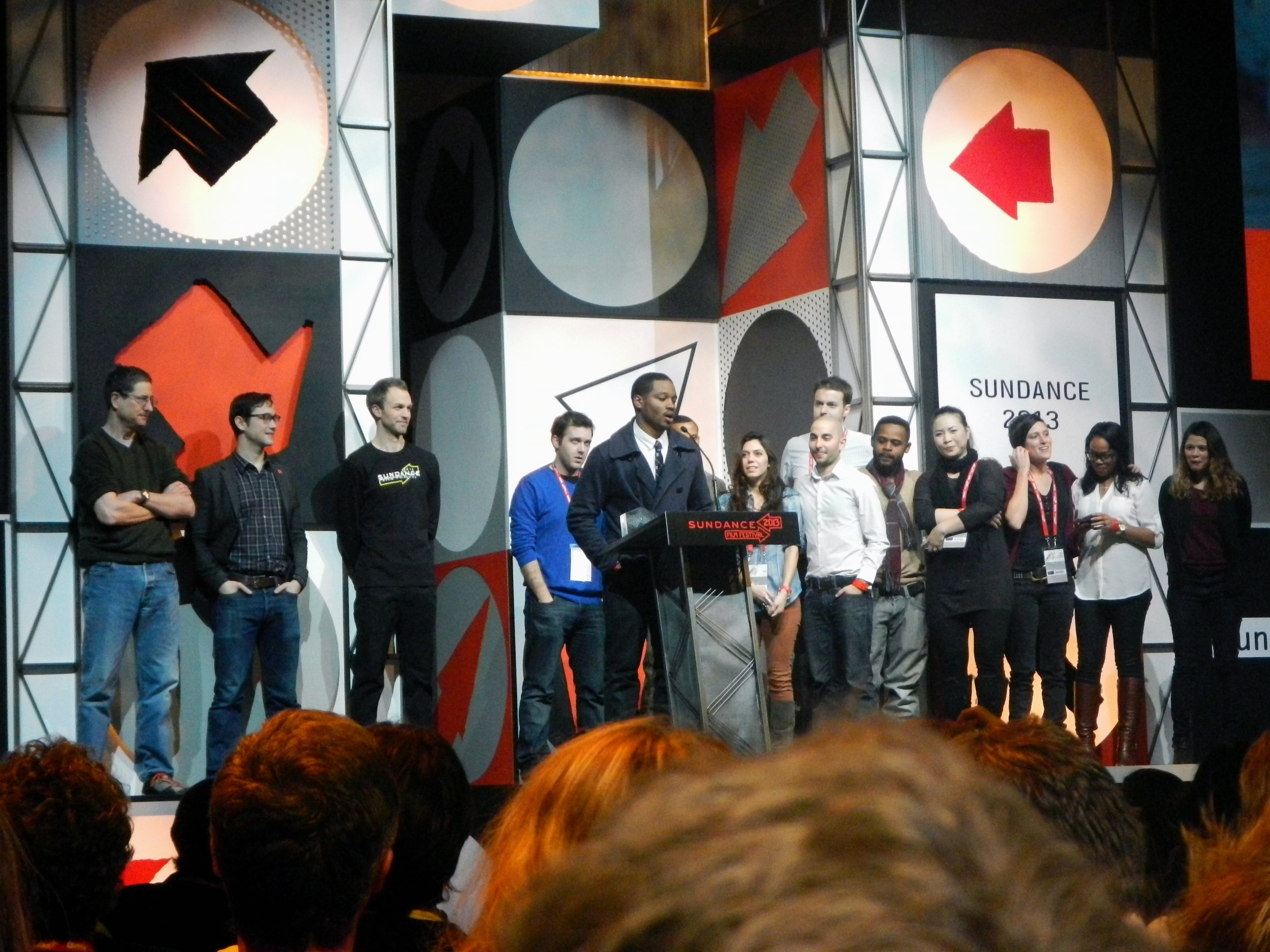 Ryan Coogler with his crew and cast at the Sundance 2013 Awards